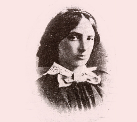 Soledad Acosta de Samper, joven.